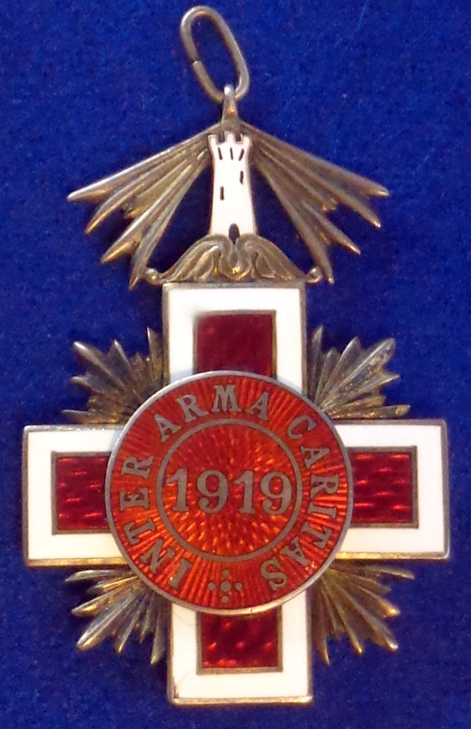 Order of the Estonian Red Cross 5st class, badge reverse, before 1940. Estonia. The exhibition of the Tallinn Museum of Orders of Knighthood, Estonia.